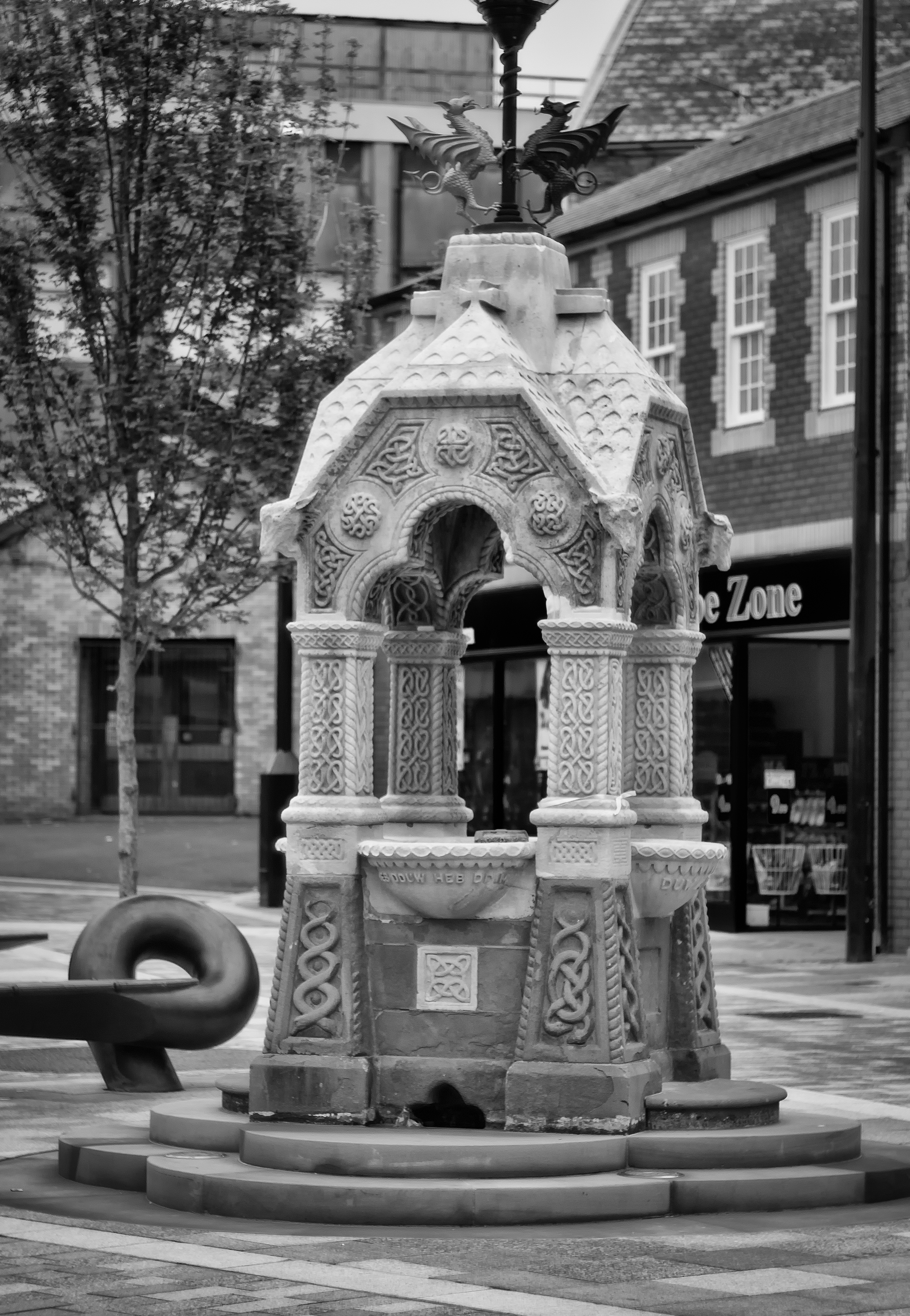 The drinking fountain in Taff St, Pontypridd, south Wales, donated in 1895 by Sir Alfred Thomas, MP for East Glamorgan